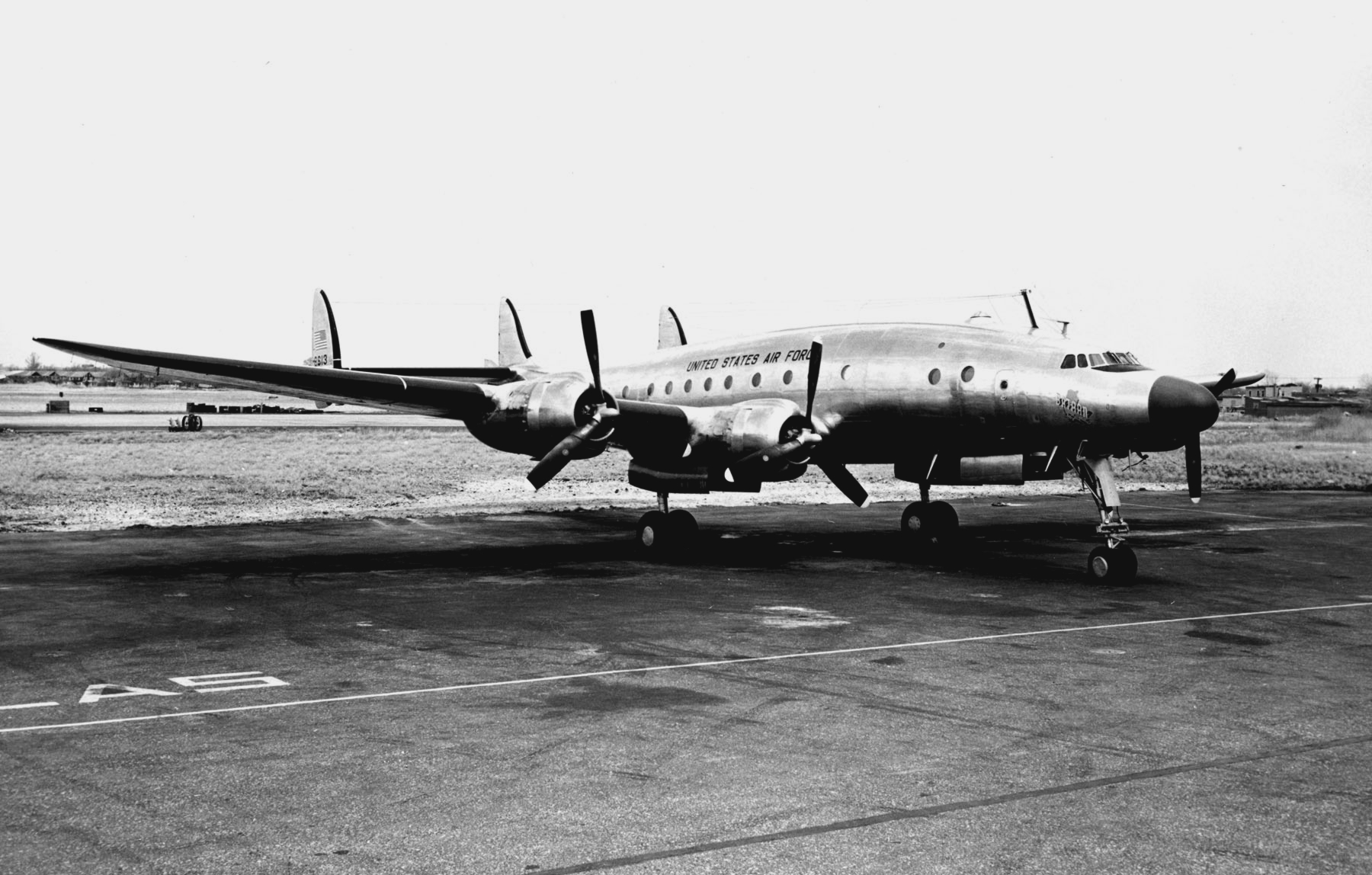 A U.S. Air Force Lockheed VC-121A Constellation (s/n 49-613) when it was used by General Douglas MacArthur in Korea in 1950. During this time the plane was names "Bataan" after MacArthur's experiences in the Philippines during the Second World War. The USAF finally retired the plane in January 1966. It was later transferred to the NASA as N422NA for support of the Apollo lunar program. Today it is on display at the Planes of Fame Air Museum, Valle, Arizona (USA).